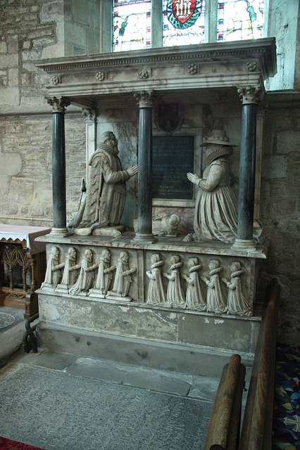 Tomb monument of Edward and Elizabeth Skynner of Ledbury Park, Herefordshire. Edward Skynner died in 1631, three years after his wife Elizabeth. Their daughter, a baby girl, who lies between the couple, was reputedly killed by the last wolf in the district. The couple's other five sons and five daughters kneel below